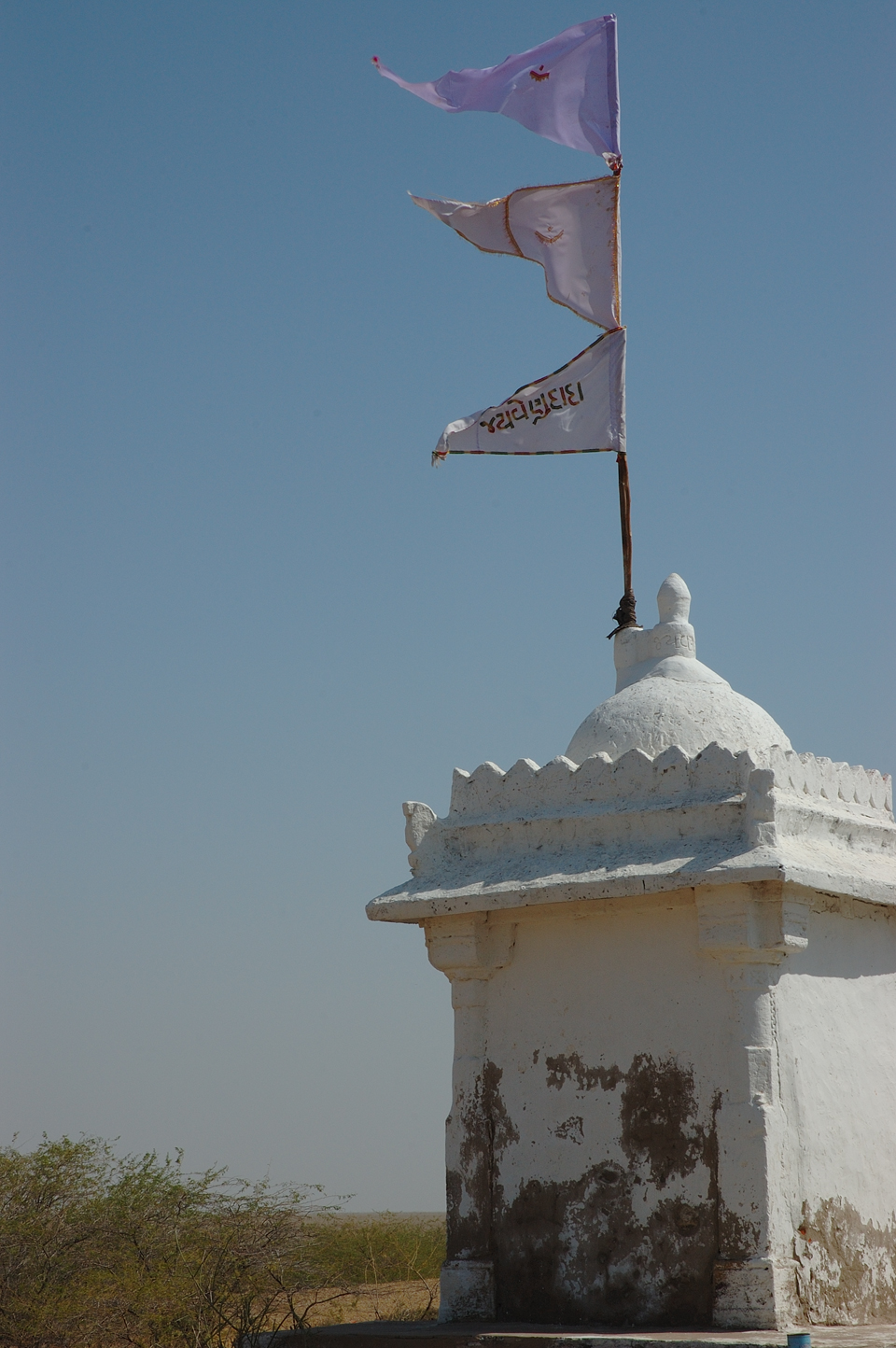 A close-up of a rural temple in Varnu, Gujarat, India, showing the temple flags with the Rann of Kutch in the background